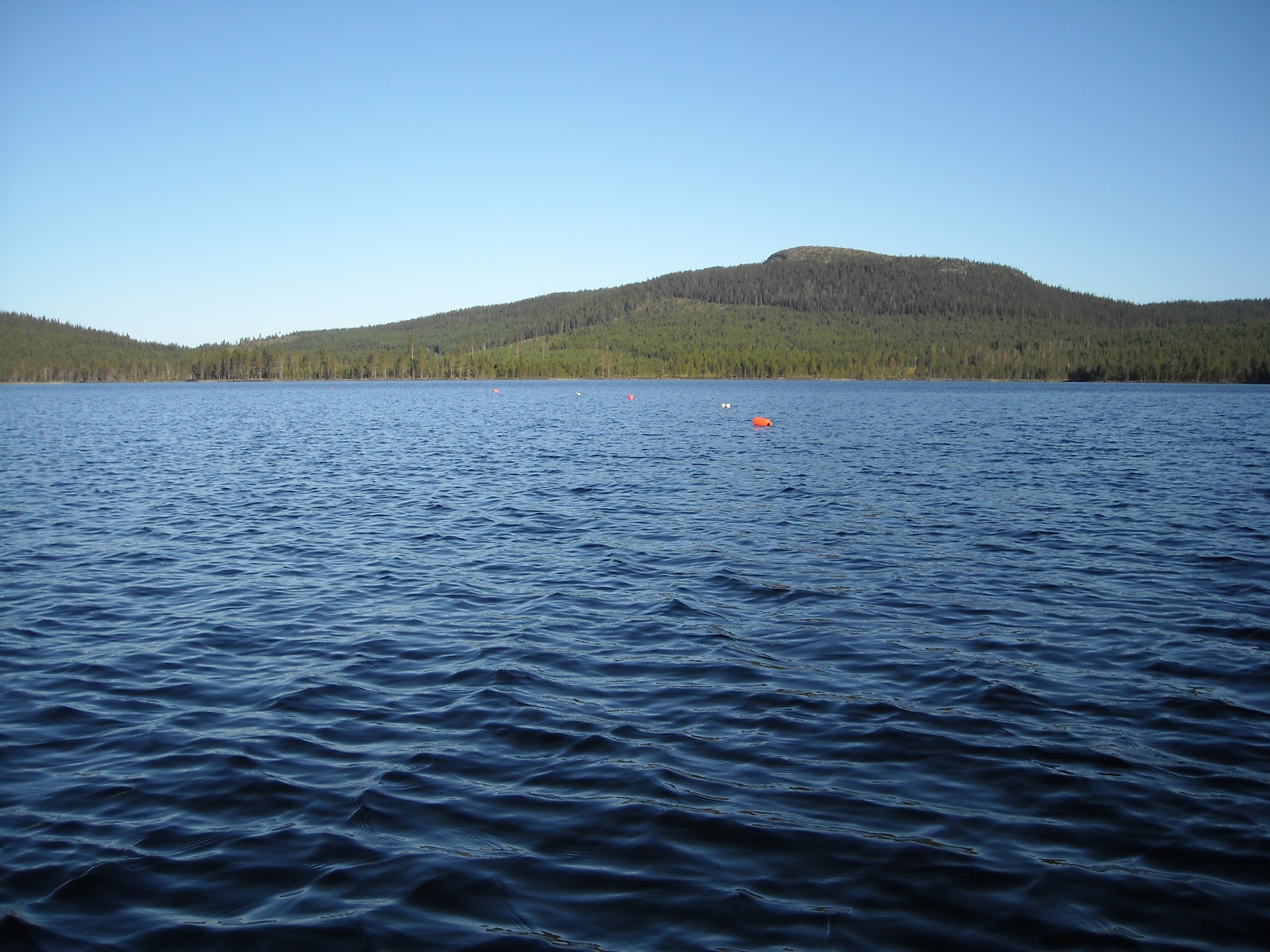 Photo taken at Lake Vuolgamjaure, Sweden, during test-fishing in summer 2011